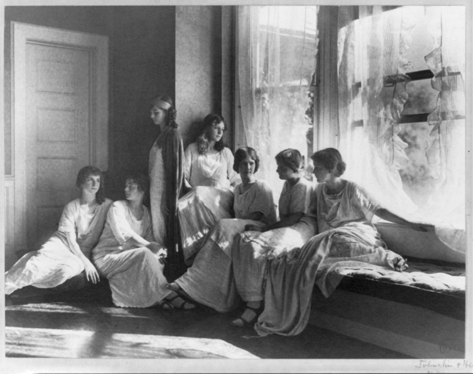 A picture of Isadora Duncan's student's, including Isadorable dancers. Caption card tracings: BI; Dance--Modern; Shelf. Duncan, Isadora, 1878-1927